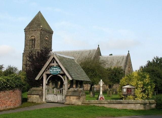 St Andrew's church, South Otterington Built in the 1840's in a neo Norman style. A rather heavy design in dark sandstone with an odd little pyramid roof on the tower.